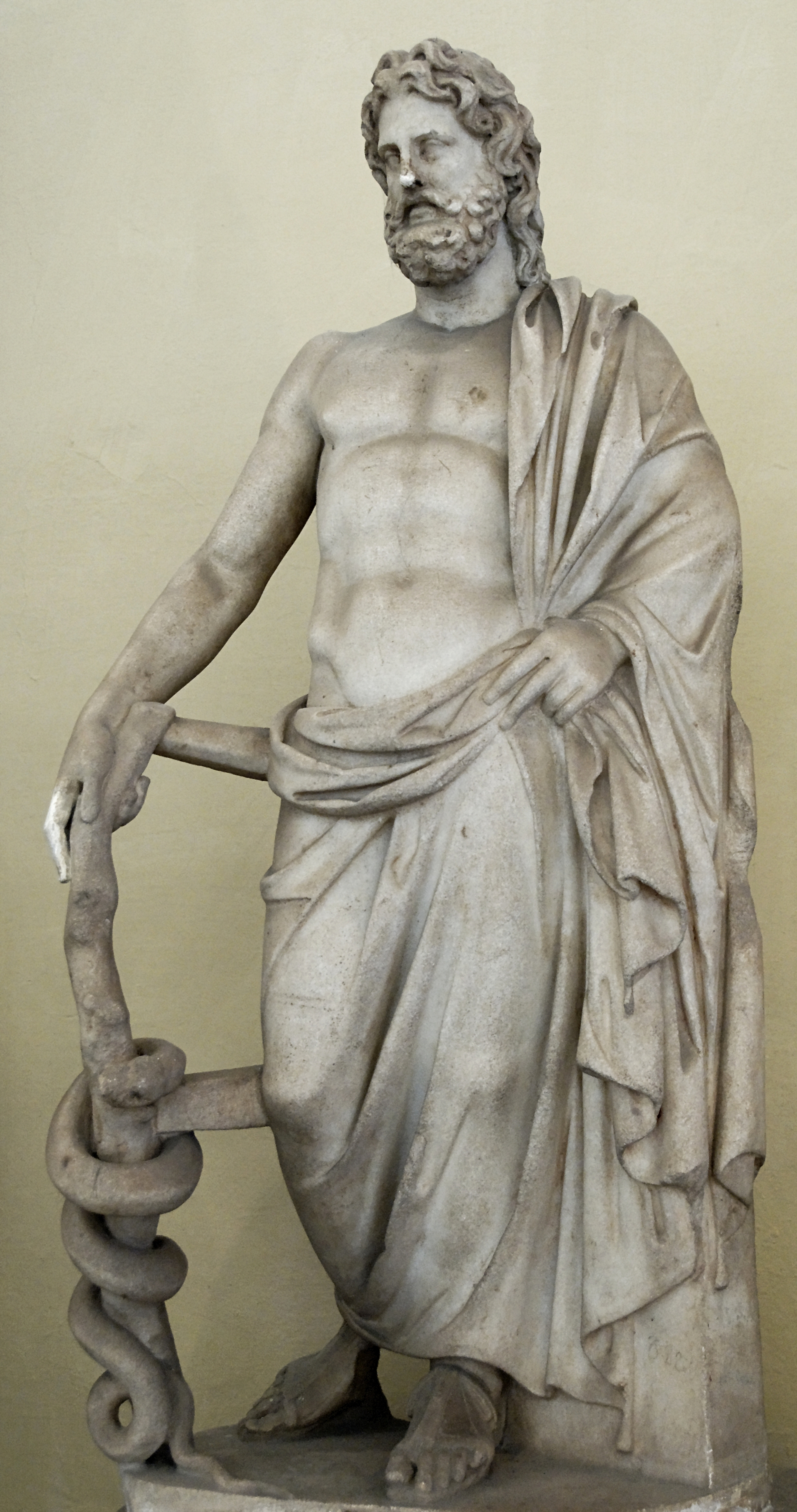 Statuette of Asklepios. Marble, Roman copy of the 2nd century AD after a Hellenistic original. From Ostia.